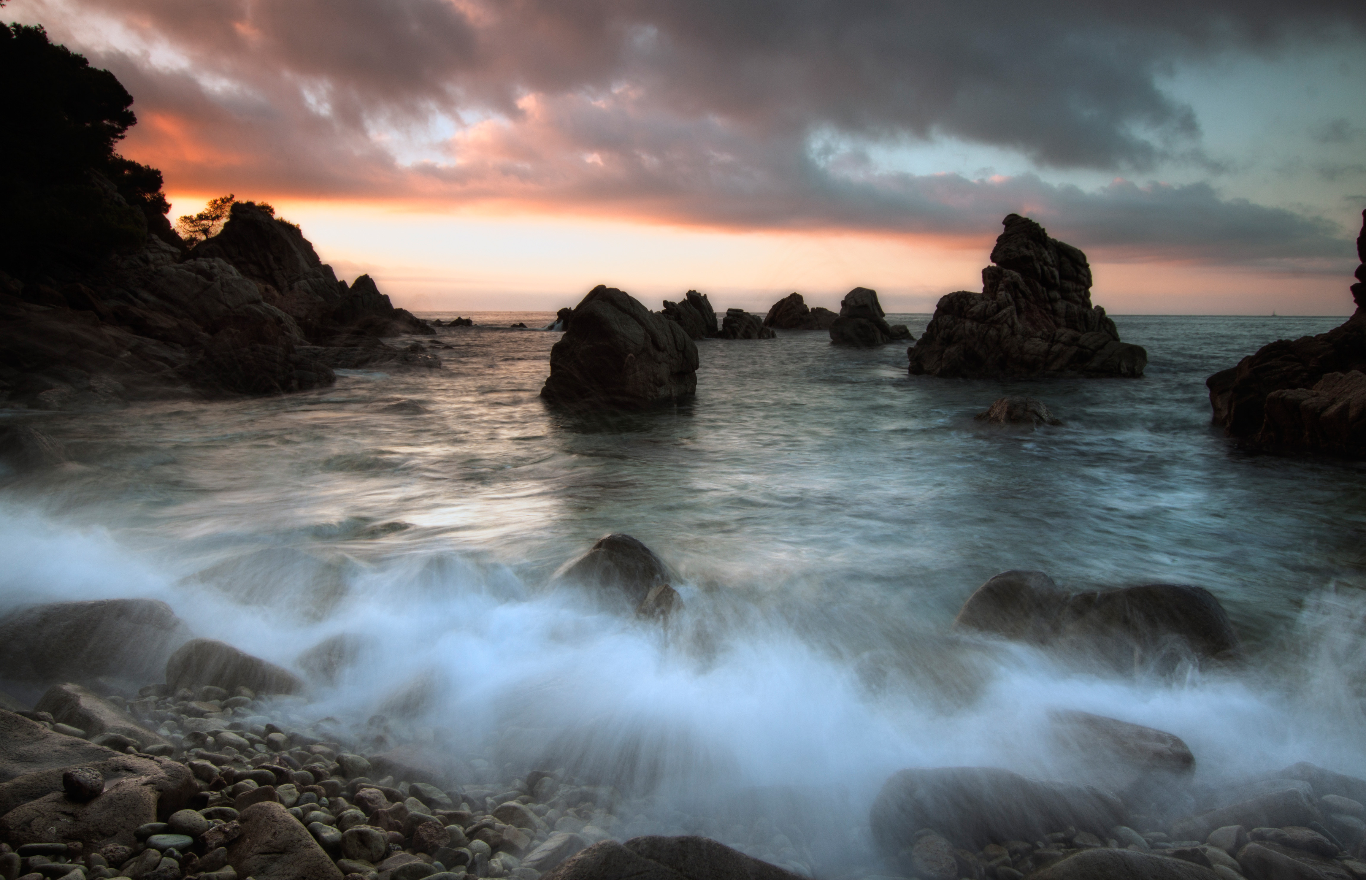 Cove's rocks in Cala des Frares, Lloret de Mar This is a a photo of a beach in Catalonia, Spain, with id: PL-CT-17003-141